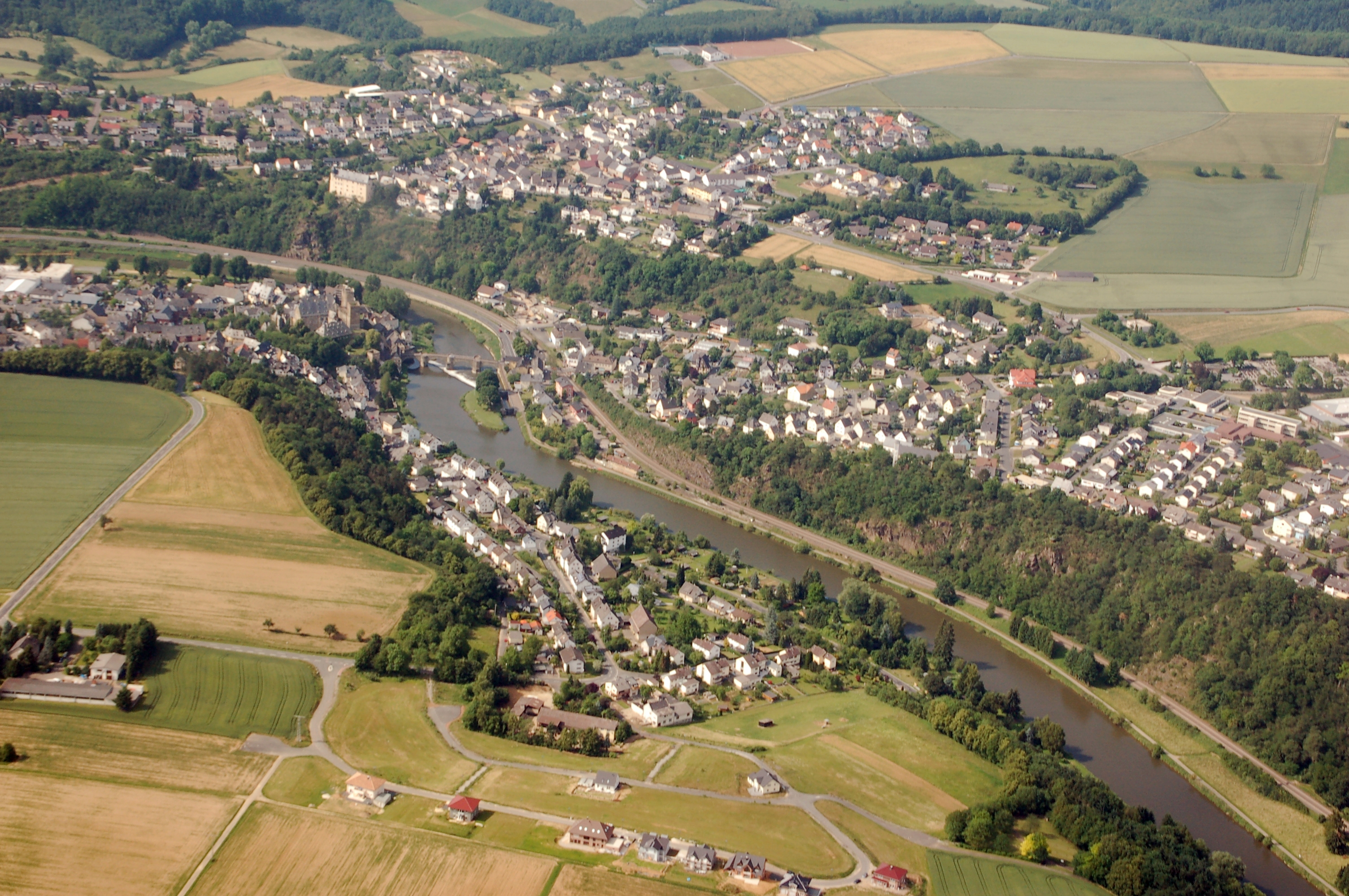 Aerial photograph of Runkel (Lahn), Hesse, Germany